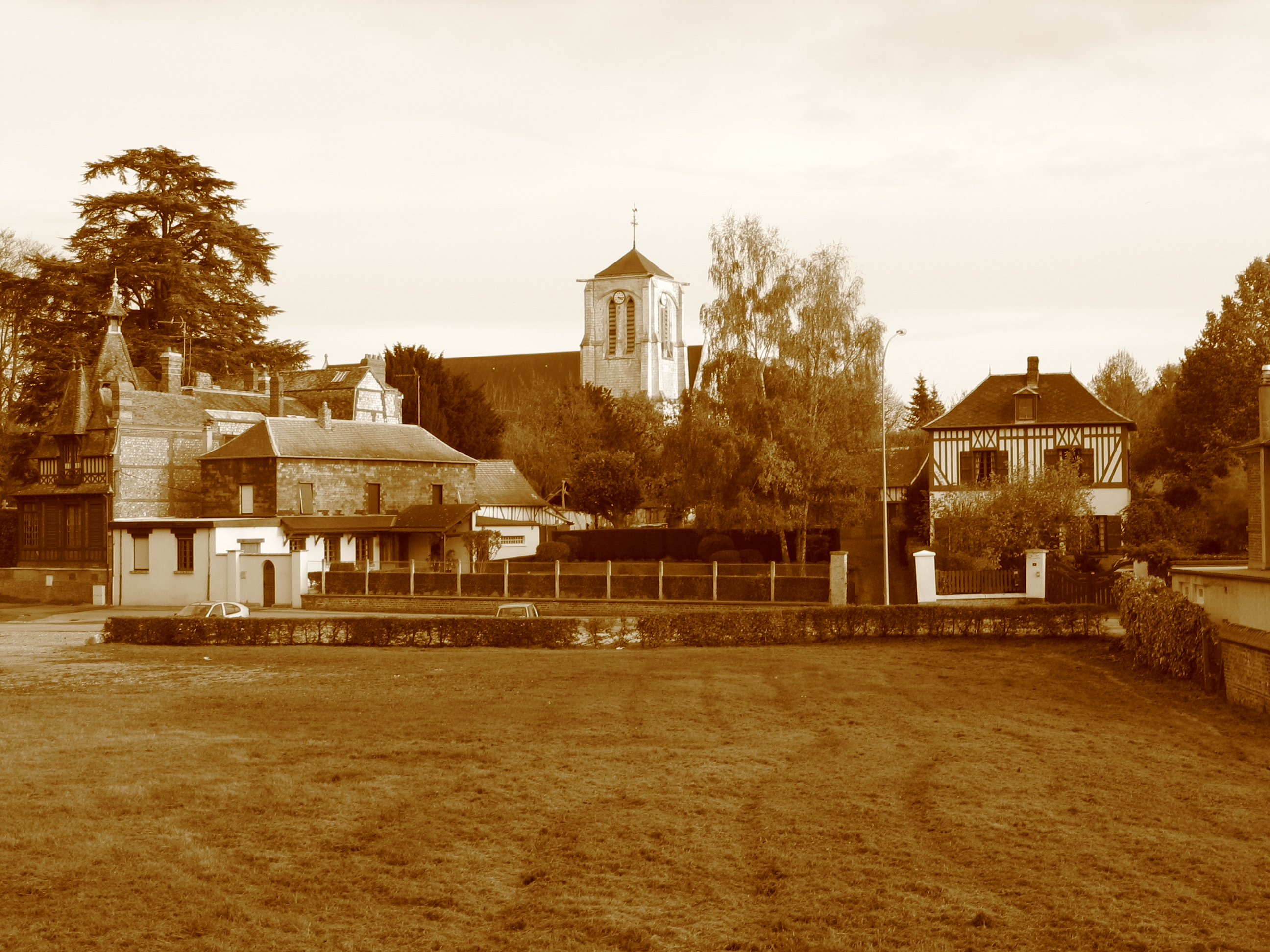 Collegiate church Saint-Louis of La Saussaye (Eure).